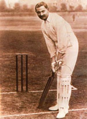 Photograph of Ranjitsinhji, celebrated cricketer and Maharaja of Nawanagar, who died in 1933.